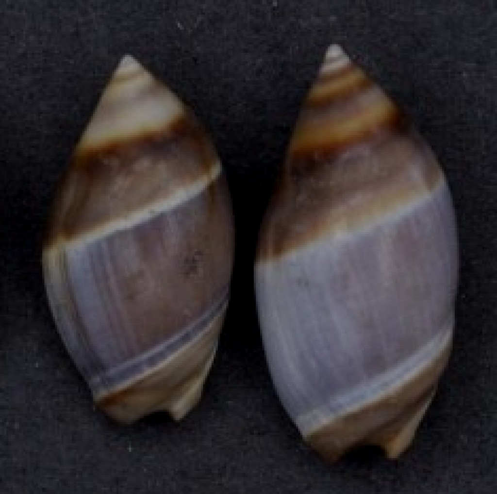 Seashells of Amalda australis (G.B. Sowerby I, 1830)[1] from the collection of Naturalis Biodiversity Center, Taken in New Zealand.